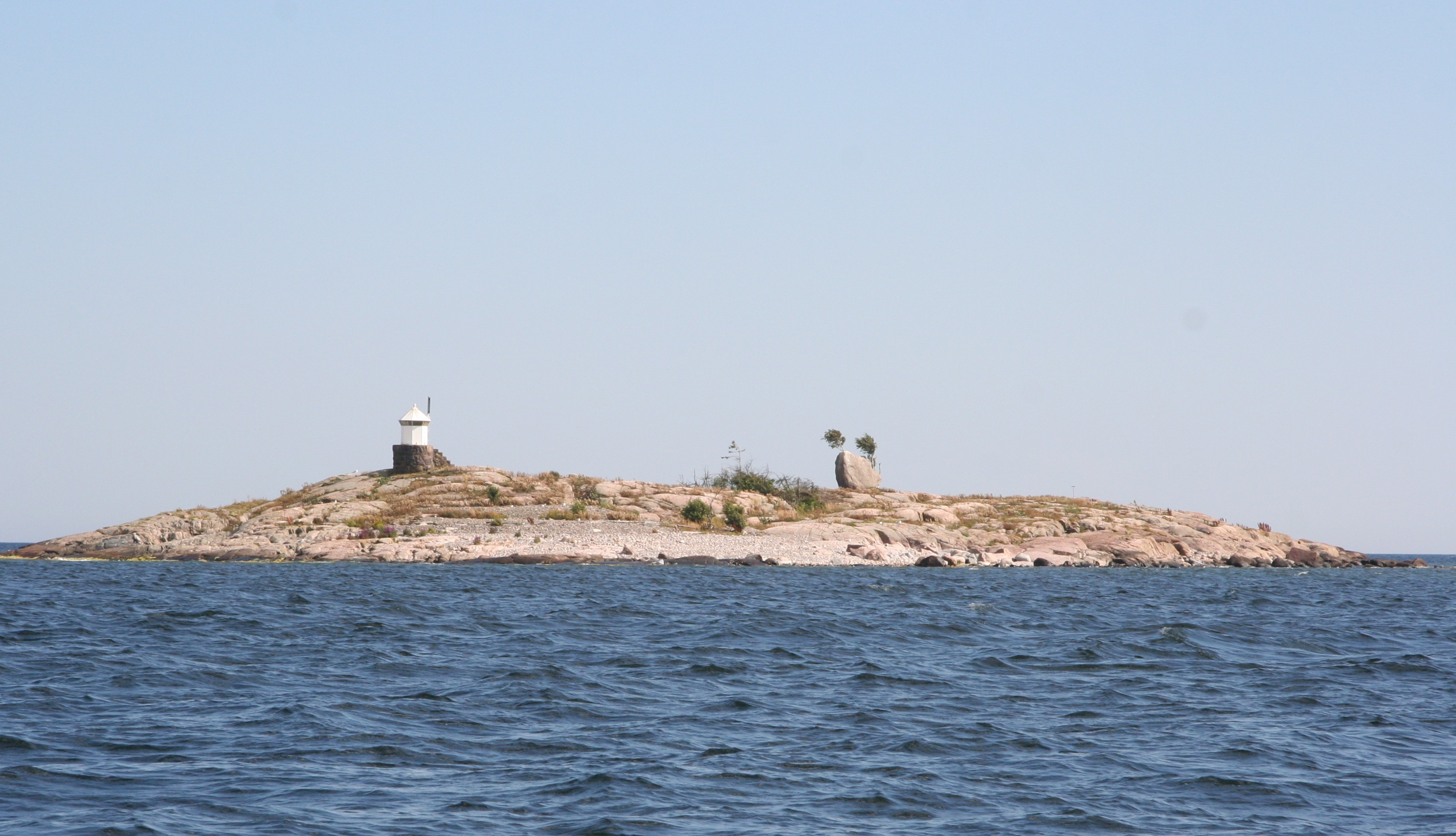 Kyto Beacon, Espoo Finland